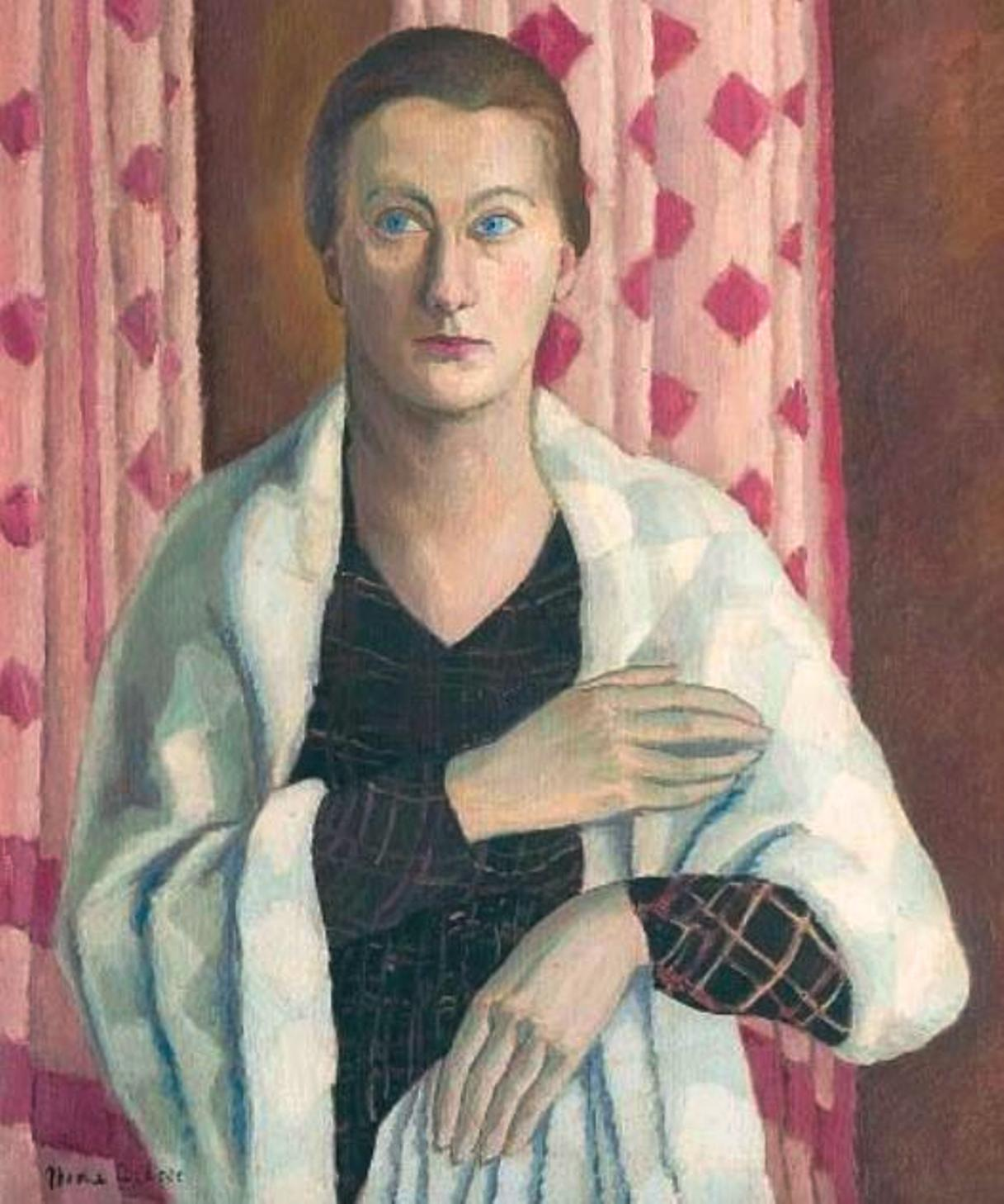 Autoportret ("Self-portrait"), oil on canvass, Bucharest City Museum collection.